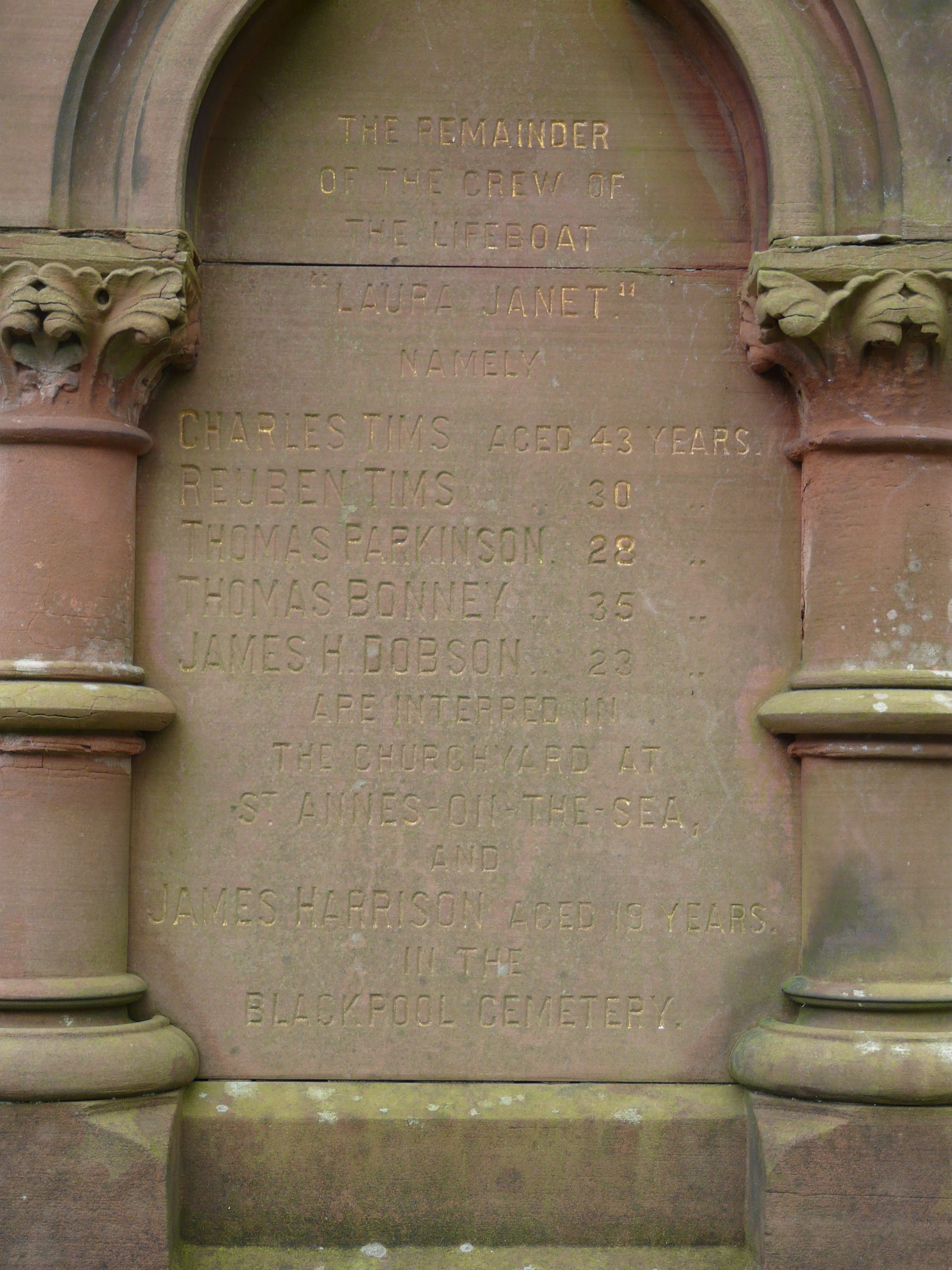 Detail of memorial at St Cuthbert's Church, Lytham, Lancashire, UK to the loss of the RNLI lifeboat "Laura Janet" 9 December 1886.